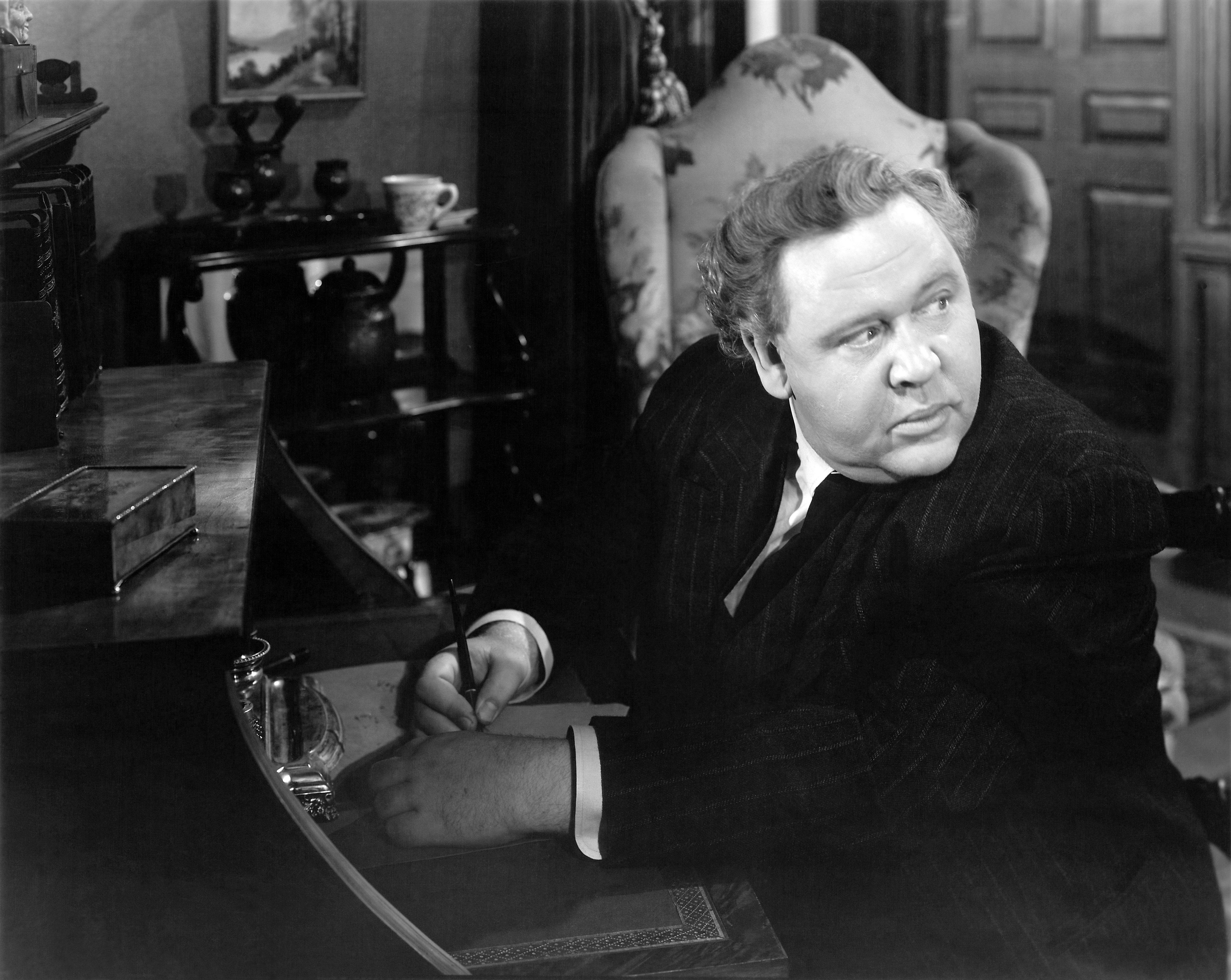 Publicity still of Charles Laughton in the 1944 film, The Suspect